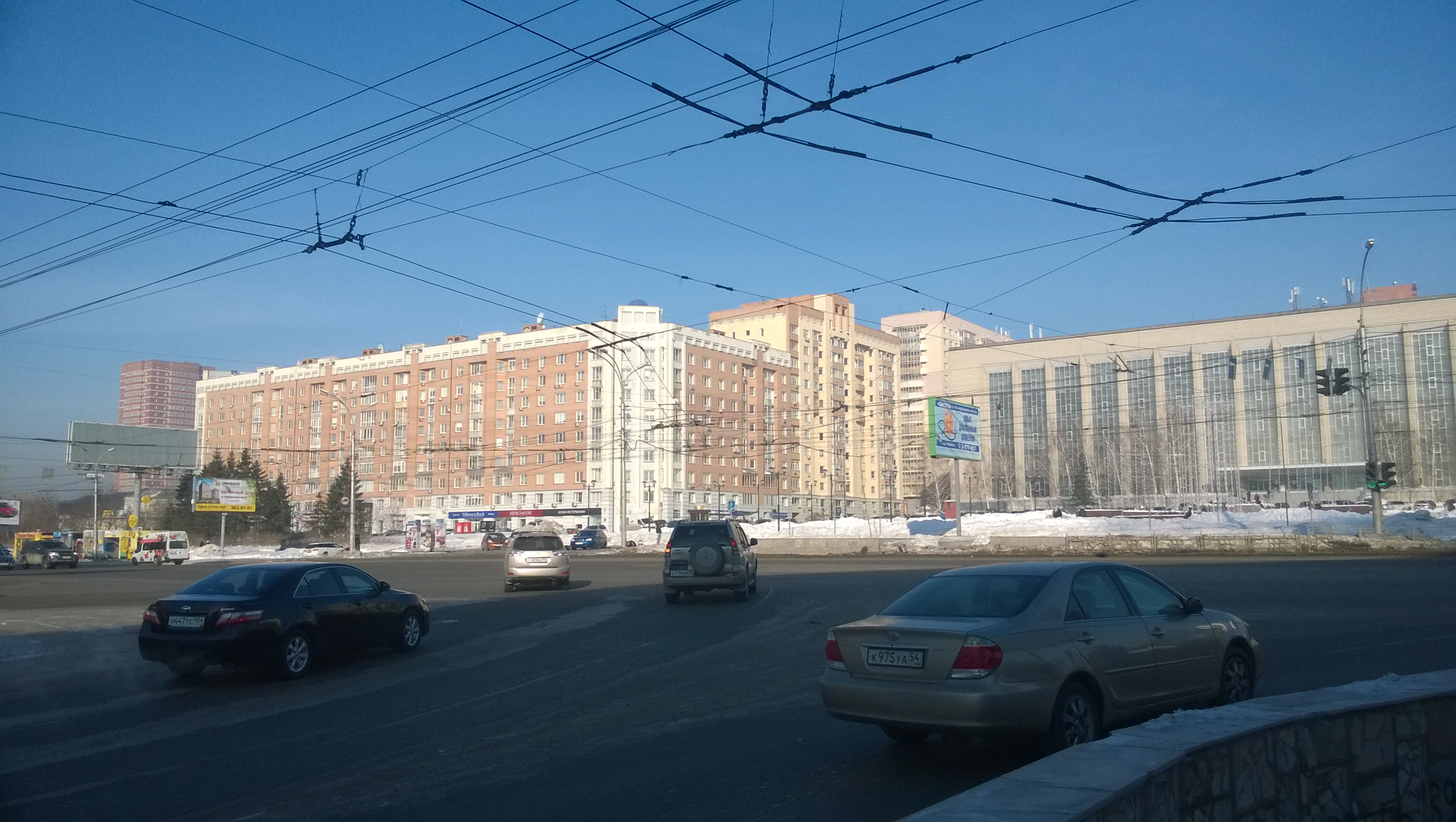 Kirov street in Novosibirsk.